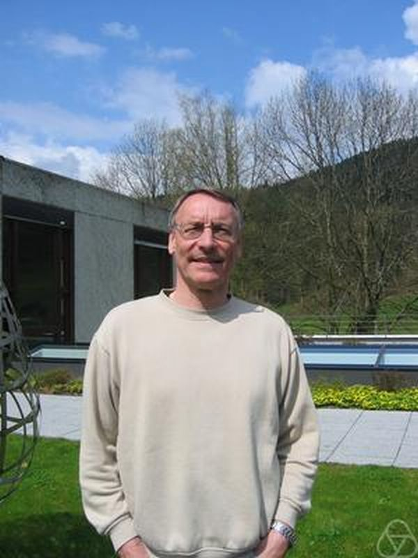 Bernd Stellmacher, Oberwolfach 2008